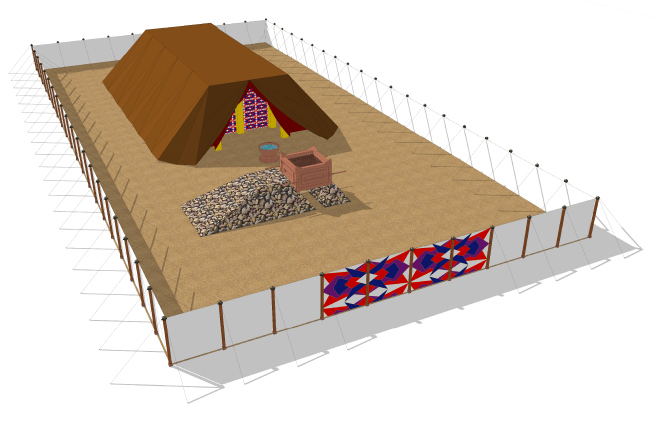 View of the tabernacle.